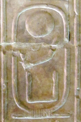 Cartouche 67, Abydos King List. Temple of Seti I, Abydos, Egypt